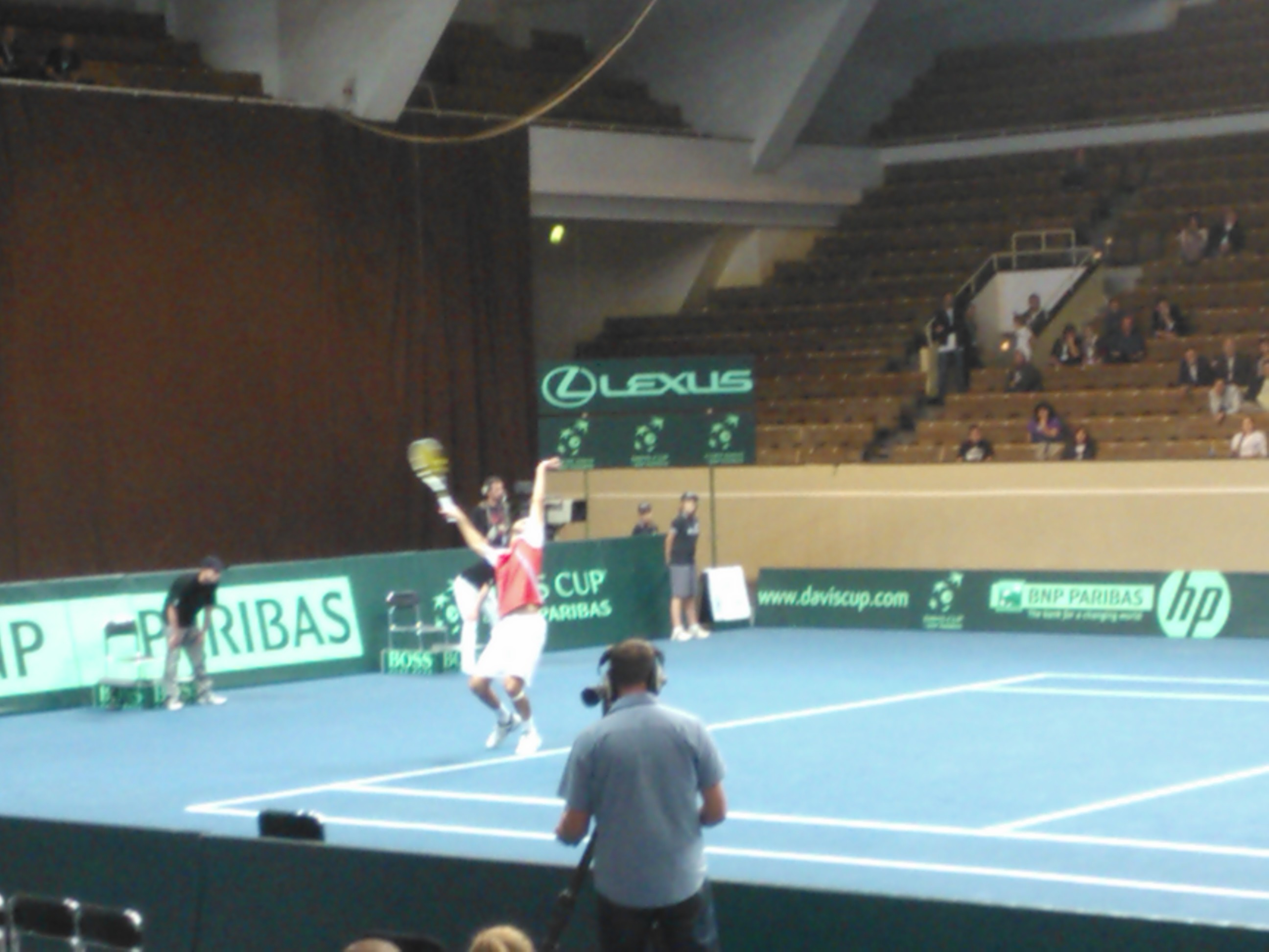 Jerzy Janowicz (Poland) while serve in match Poland-Belarus on Davis cup 2012-10-14